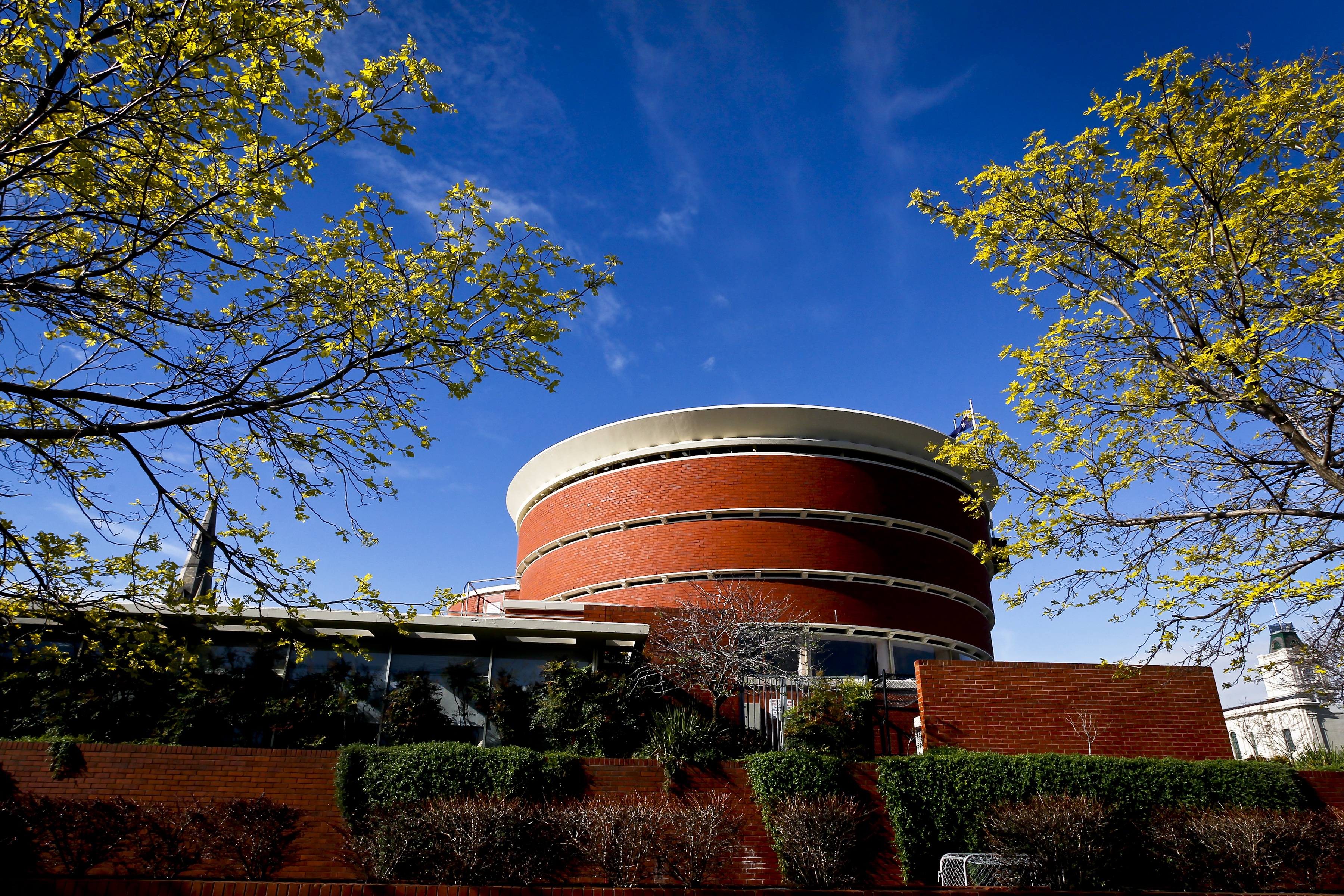 Brighton Council Chambers